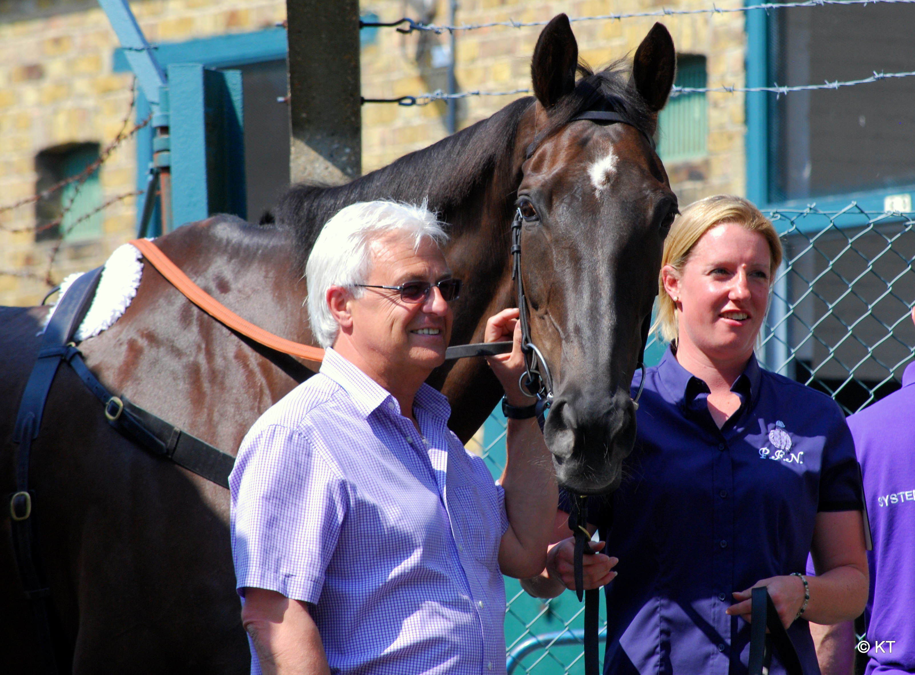 National Hunt horse, Denman, at Sandown in April 2011. He finished 5th in the Totesport Bowl, this was the final start of his career.